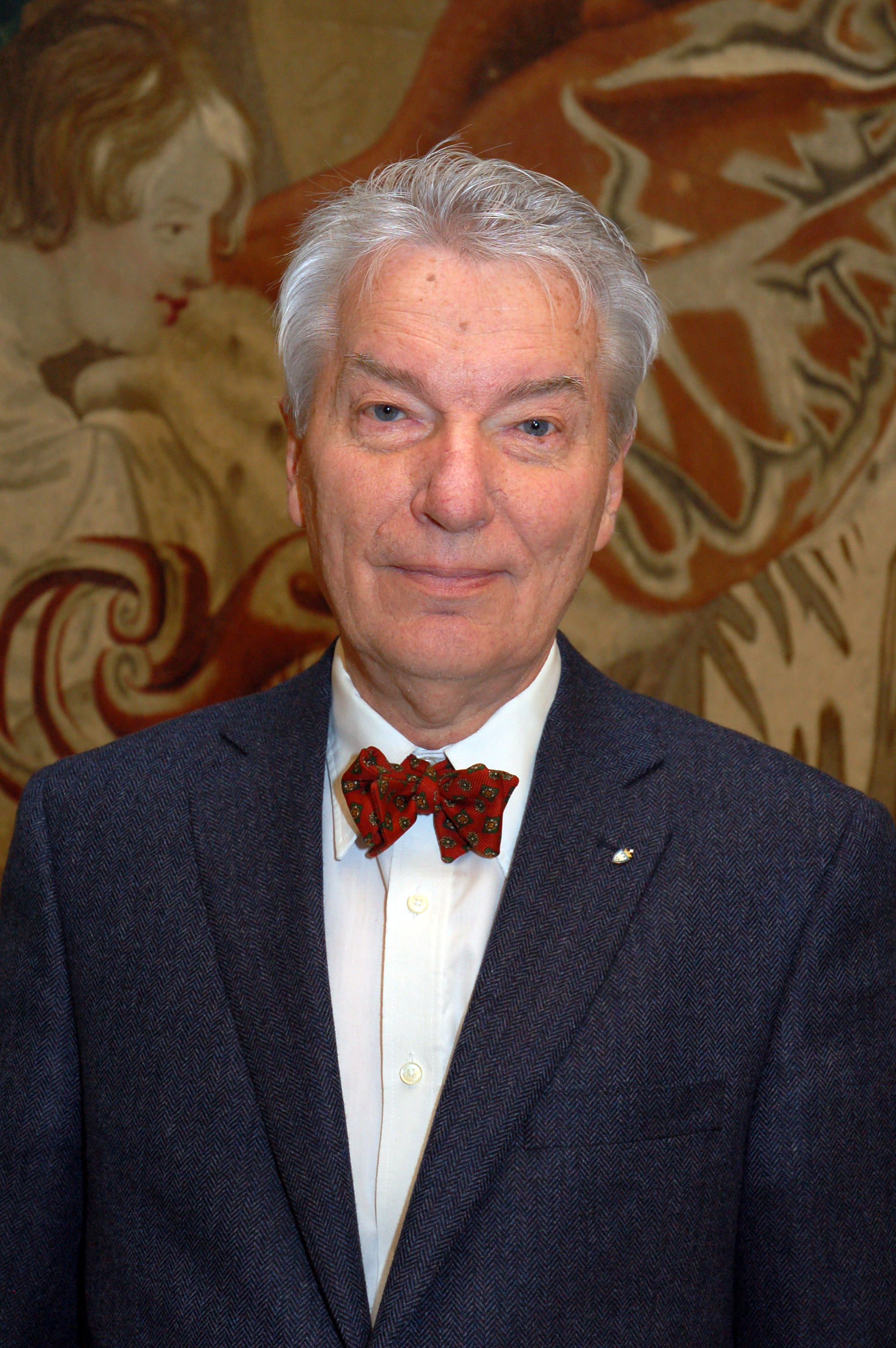 Guest of honor Szilveszter E. Vizi ("Ten years of Wikipedia" conference, 2011, Buda Castle, National Széchényi Library)